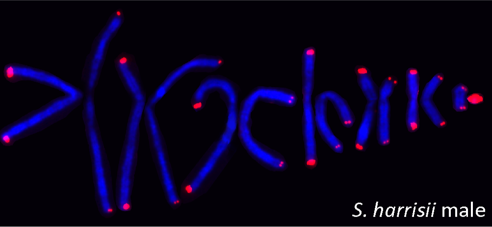 Karyotype of male Tasmanian devil (Sarcophilus Harrisii). 2n = 14.